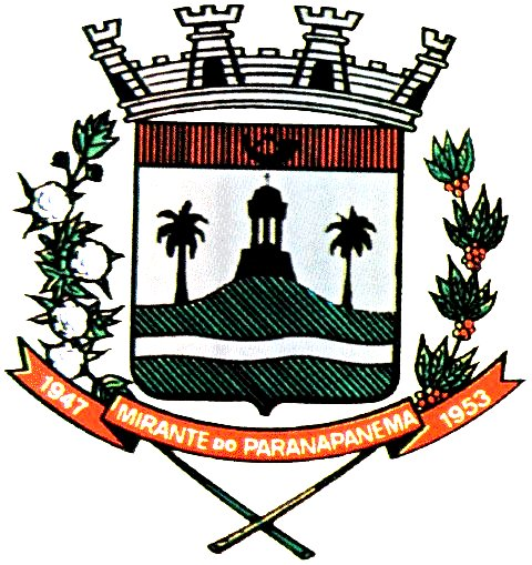 Coat of Mirante